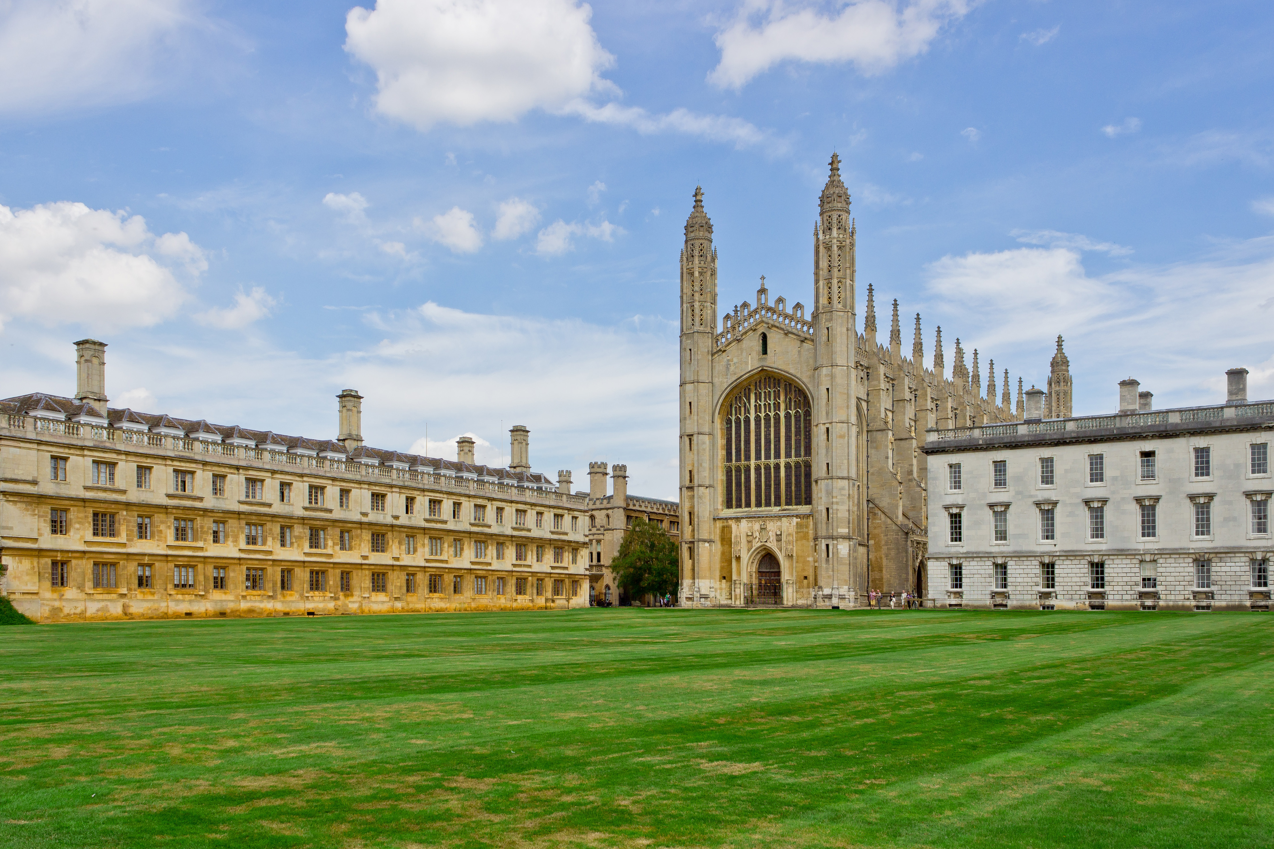 Clare College Castle End, King's College Chapel and Gibbs Building, Cambridge. View from the back court of King's College.